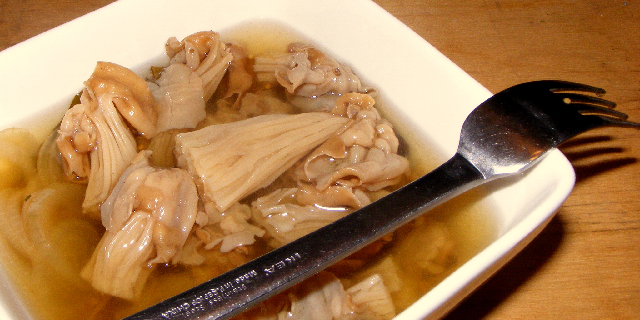 Pickled Helvella crispa specimens.